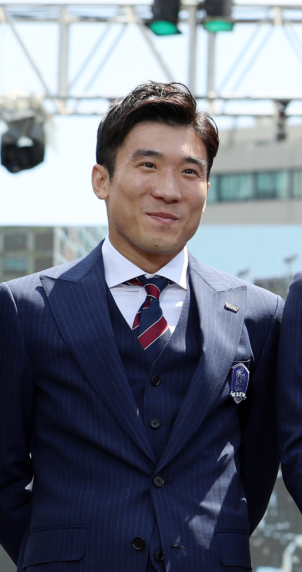 Team Korea Official Ceremony for '2018 FIFA World Cup Russia' May 21, 2018 Seoul Plaza, Jung-gu, Seoul Ministry of Culture, Sports and Tourism Korean Culture and Information Service ( Official Photographer : Jeon Han This official Republic of Korea photograph is being made available only for publication by news organizations and/or for personal printing by the subject(s) of the photograph. The photograph may not be manipulated in any way. Also, it may not be used in any type of commercial, advertisement, product or promotion that in any way suggests approval or endorsement from the government of the Republic of Korea. '2018 러시아 월드컵’ 대한민국 축구 국가대표팀 출정식 2018-05-21 시청광장 문화체육관광부 해외문화홍보원 코리아넷 전한